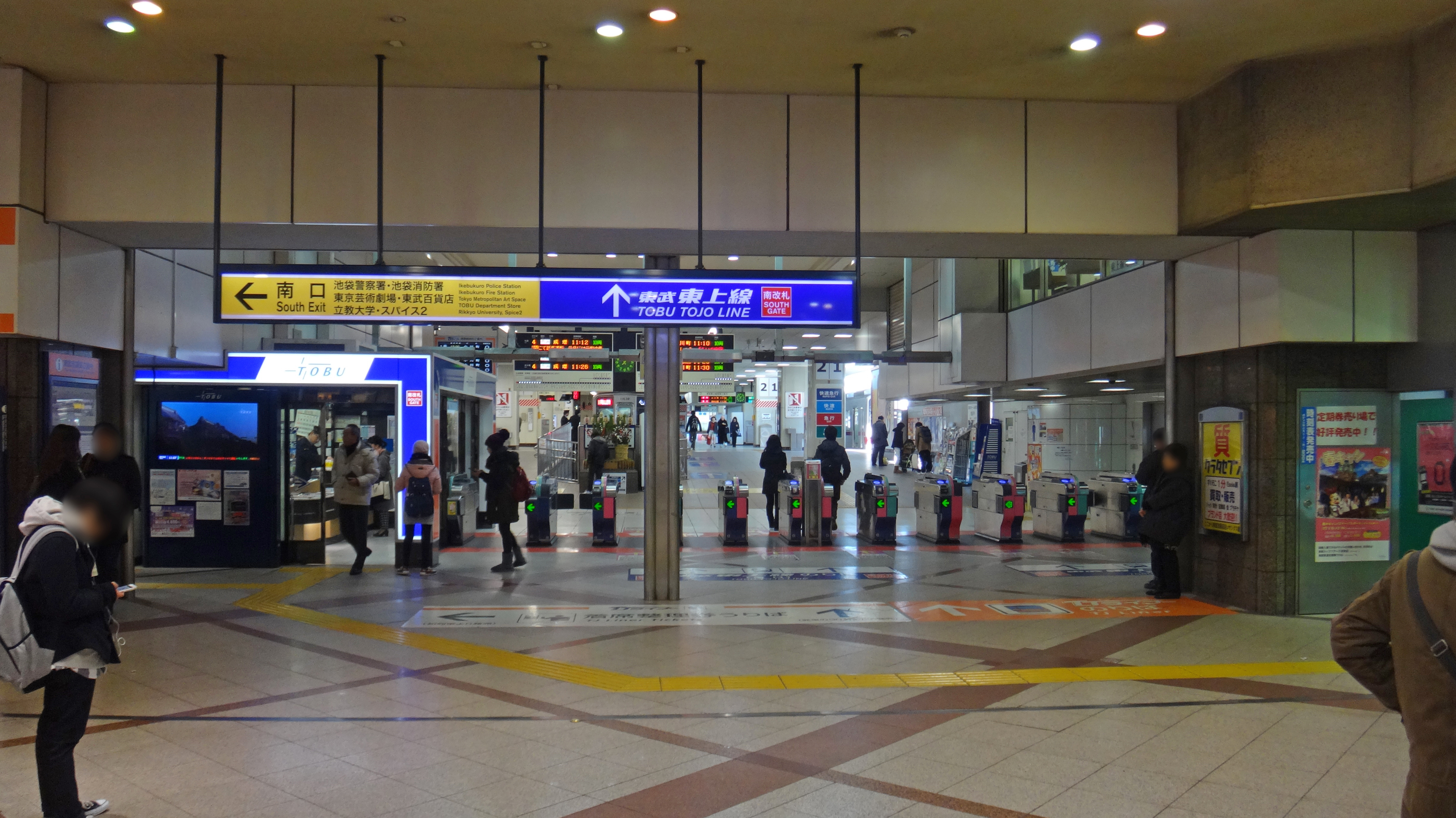 The south entrance to the Tobu Tojo Line platforms at Ikebukuro Station in Tokyo